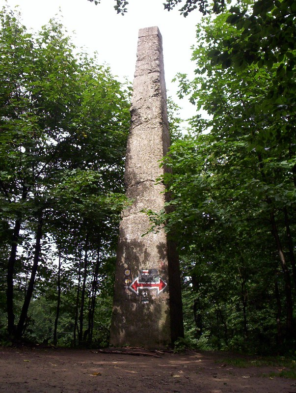 Chryszczata mountain, Bieszczady, Poland.